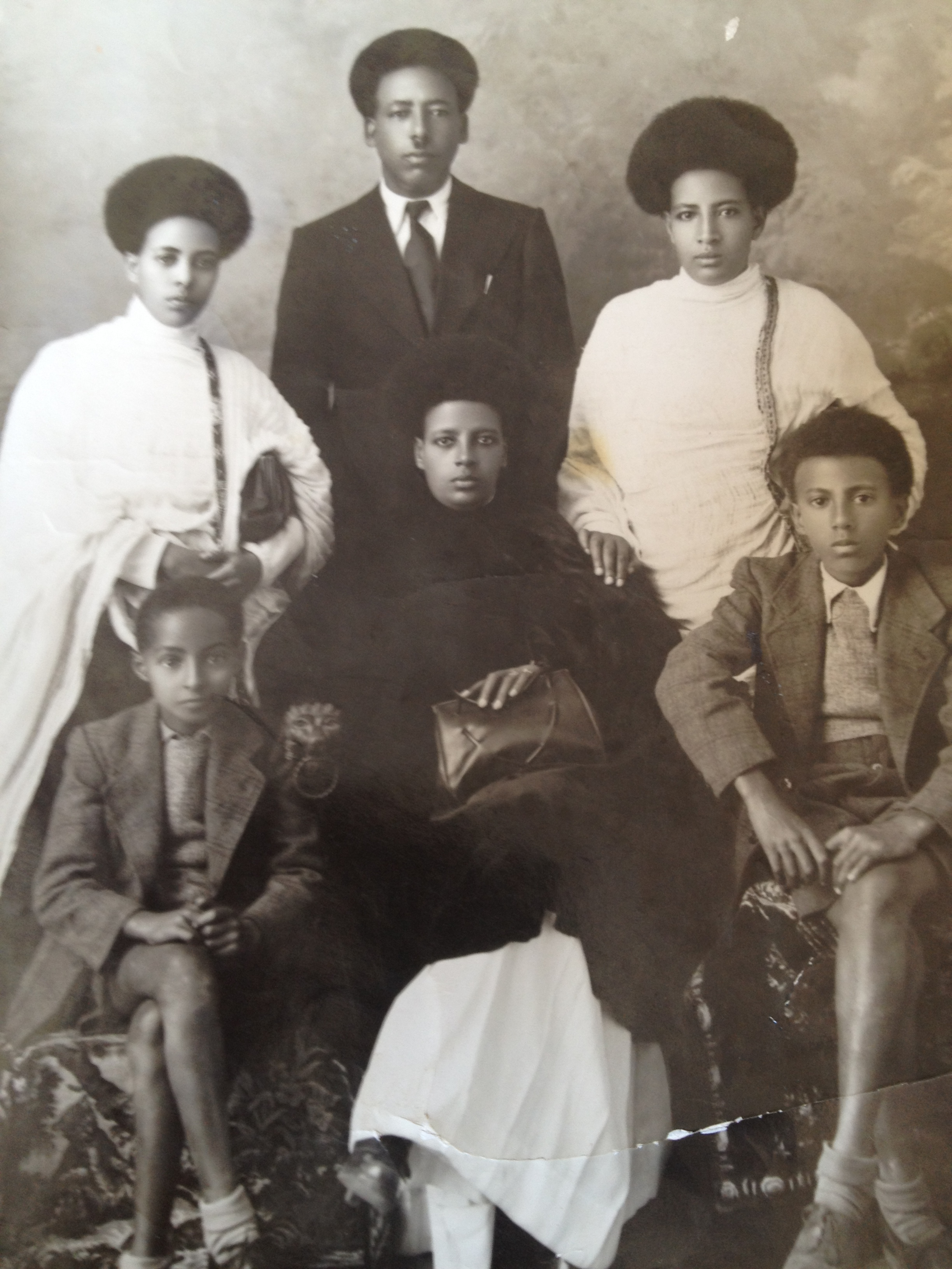 Lij Seifu Mikael with Woizero Bizunesh Kassa, daughter of Ras Kassa Haile Darge and family